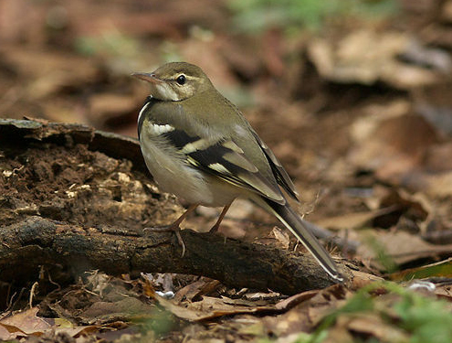 taken at Chushan, Nantou County.